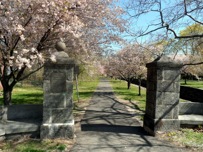 Park in Nutley